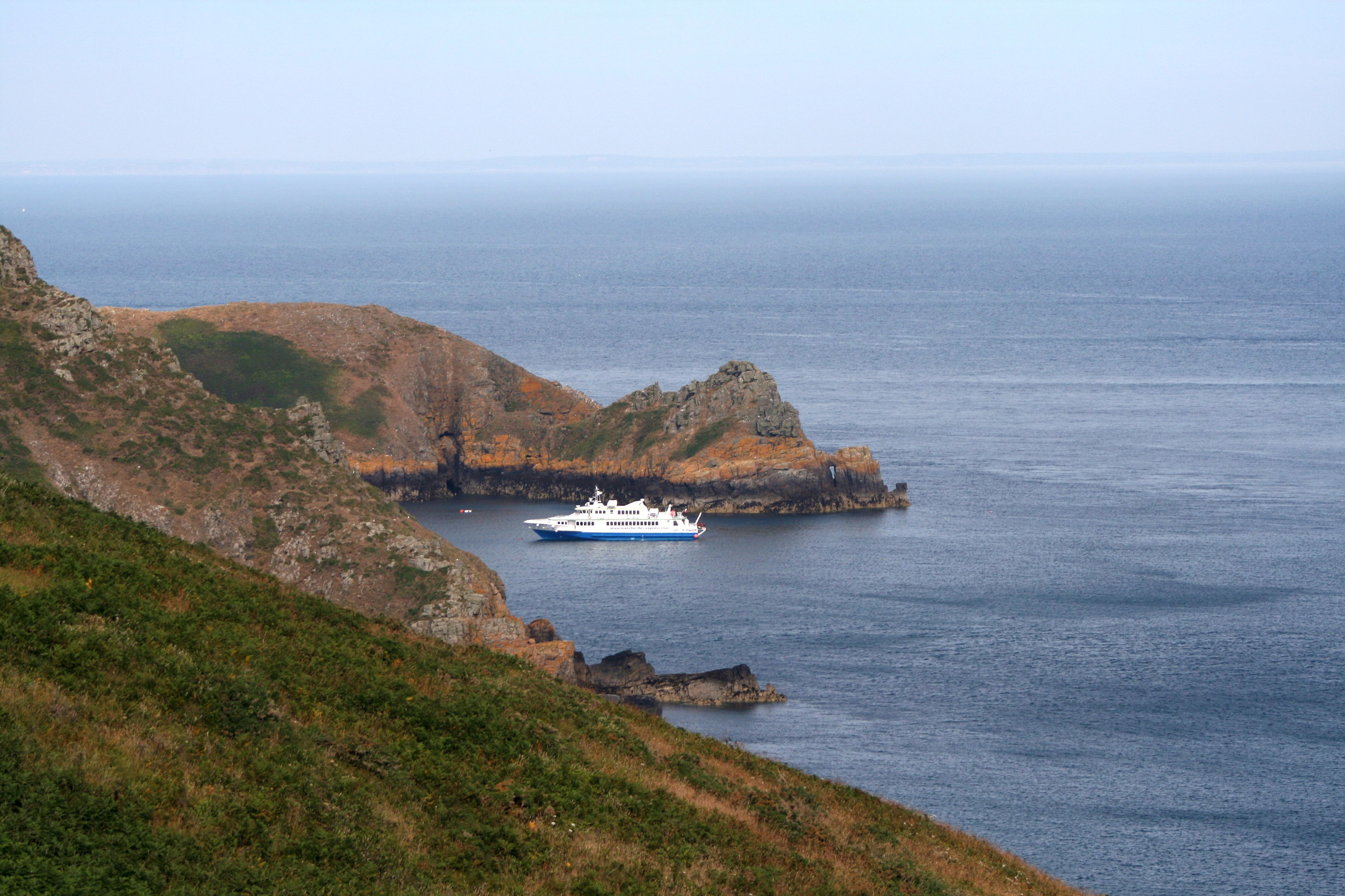 Sark, June 2009